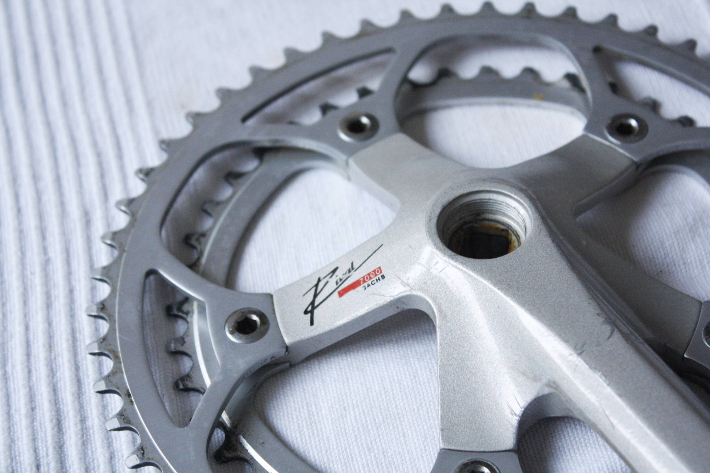 Crankset Sachs Rival 7000